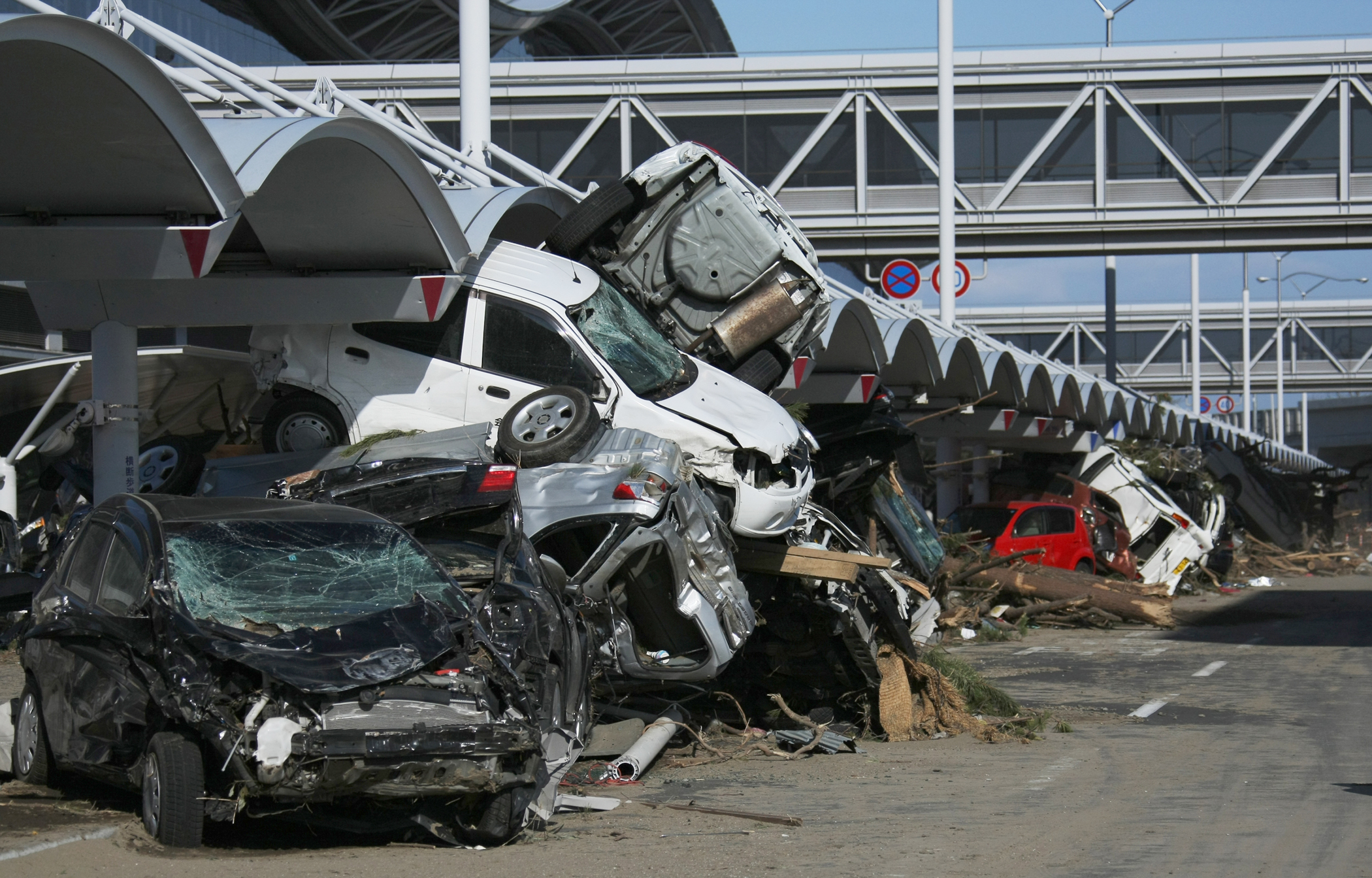 Tsunami damage to vehicles and terminal, near Sendai Airport access road.